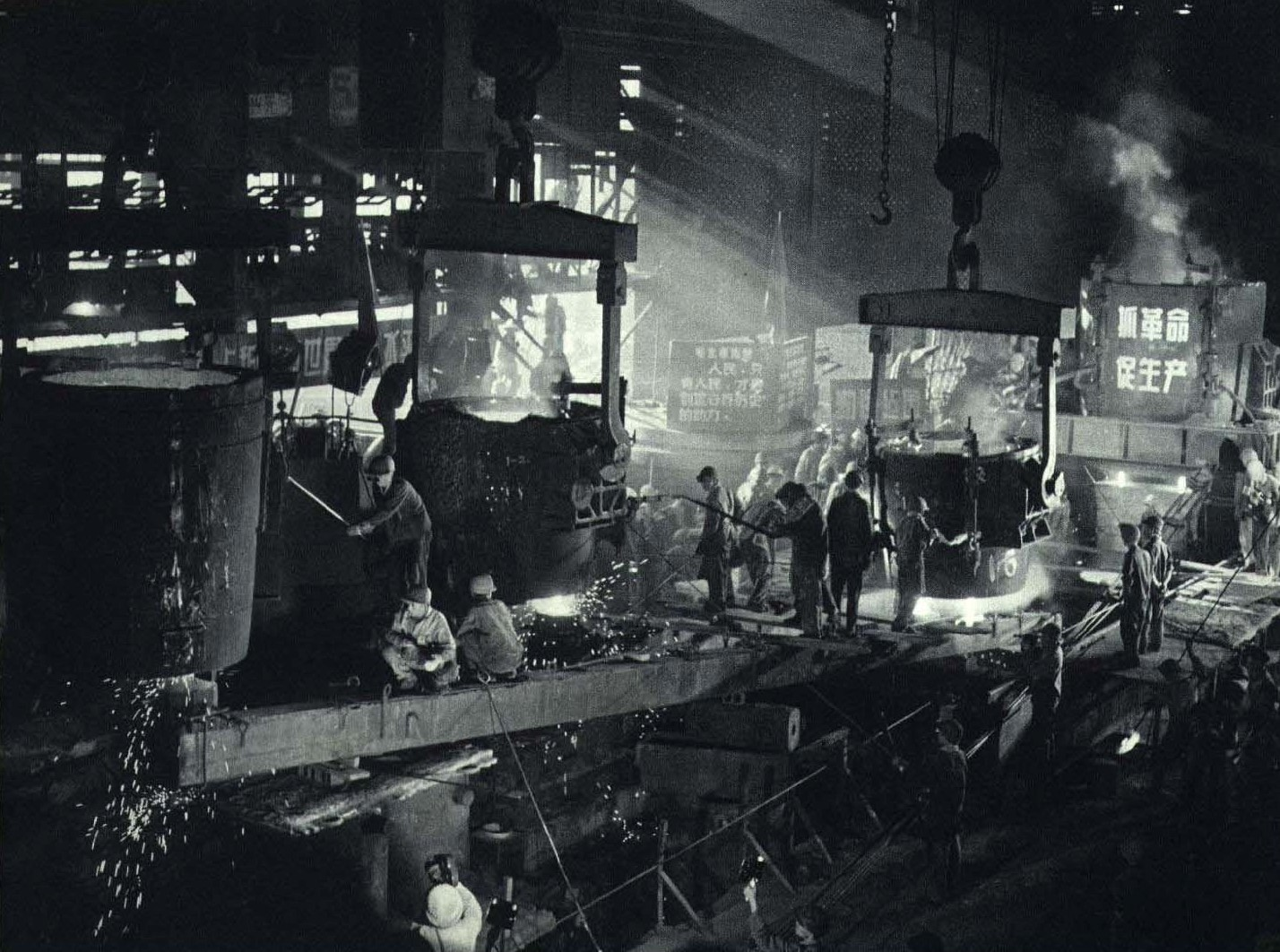 1967-01 1966年上海第三钢铁厂